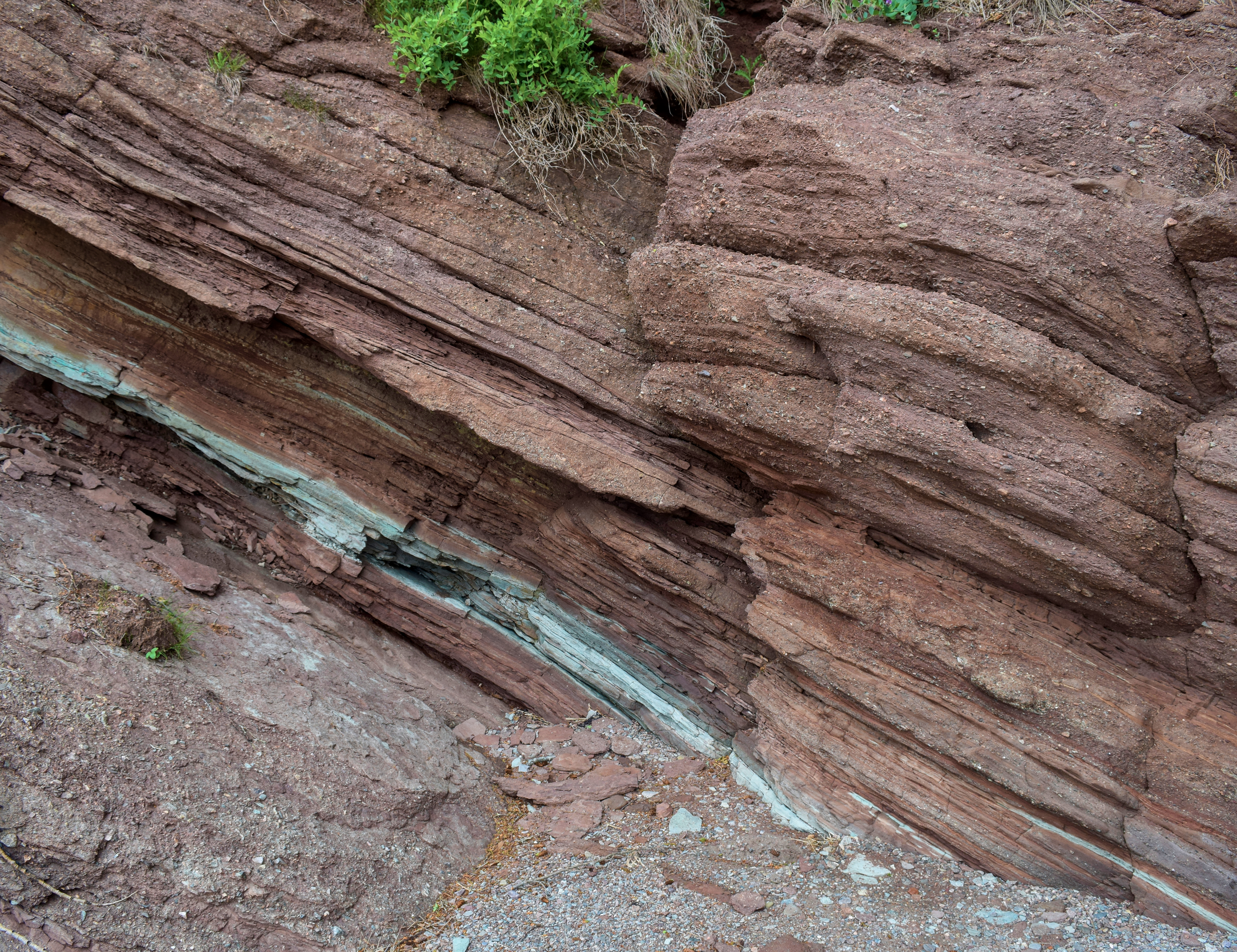 Conglomerate of the Hopewell Cape Formation outcropping at the Hopewell Rocks Provincial Park. This photo was taken in a protected area in Canada, Wikidata item Hopewell Rocks Provincial Park (Q1627589)